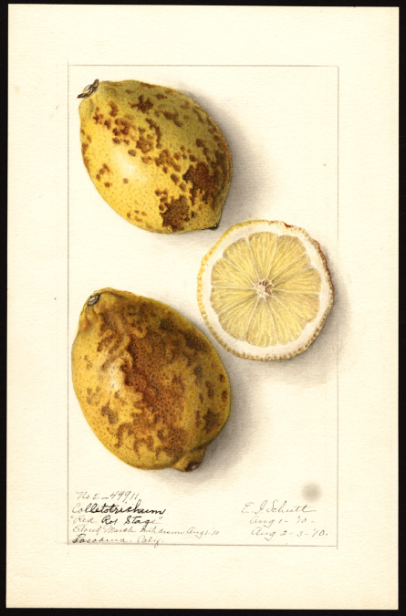 Watercolor of lemons (Citrus limon) by Ellen Isham Schutt, 1910, showing red rot from five months of cold storage.